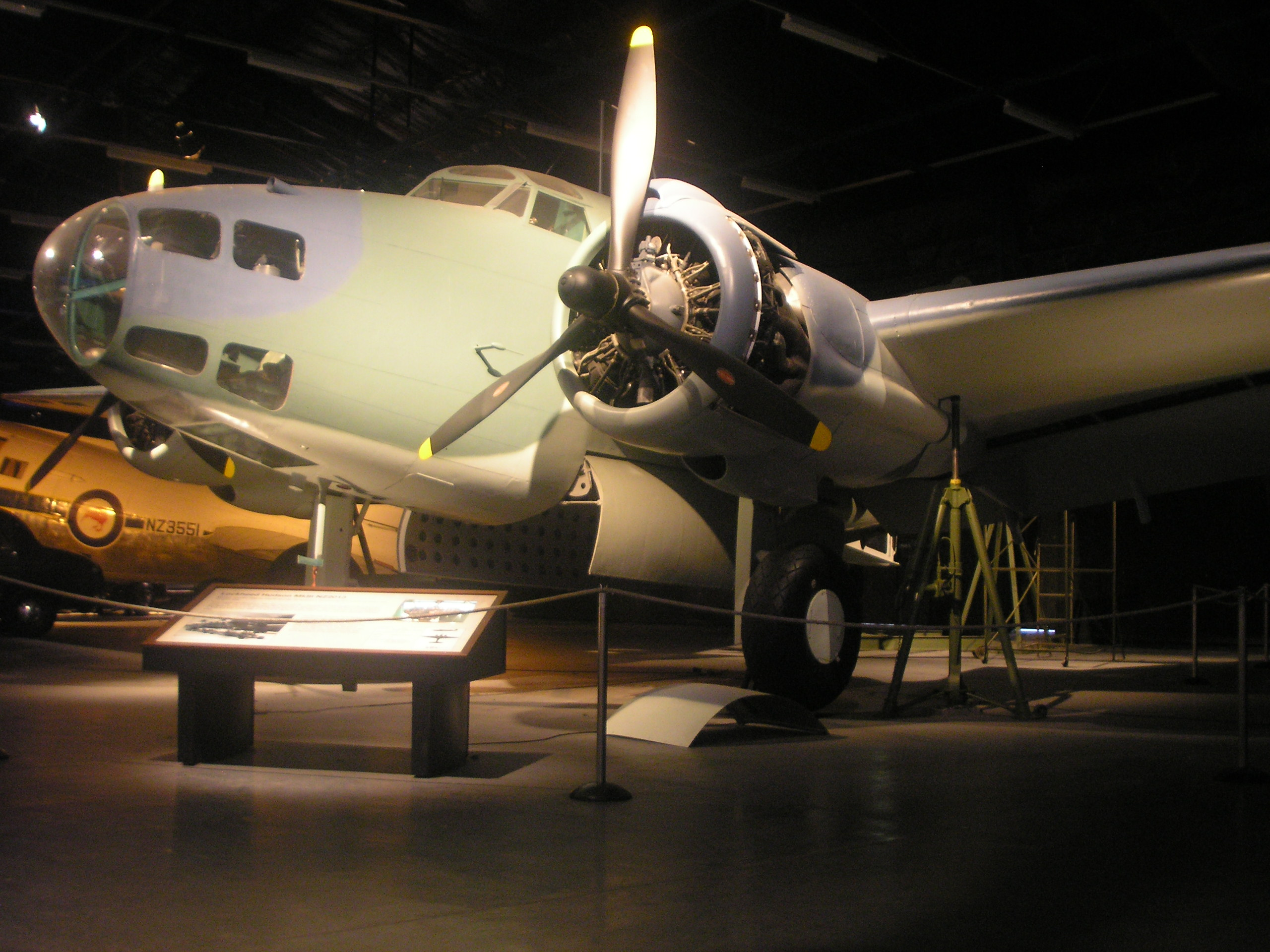 A Lockheed Hudson Patrol Bomber of the RNZAF, painted in the colours of an Aircraft of No. 4 Squadron RNZAF circa 1942-1944. Photographed by the author at the RNZAF Museum Wigram.